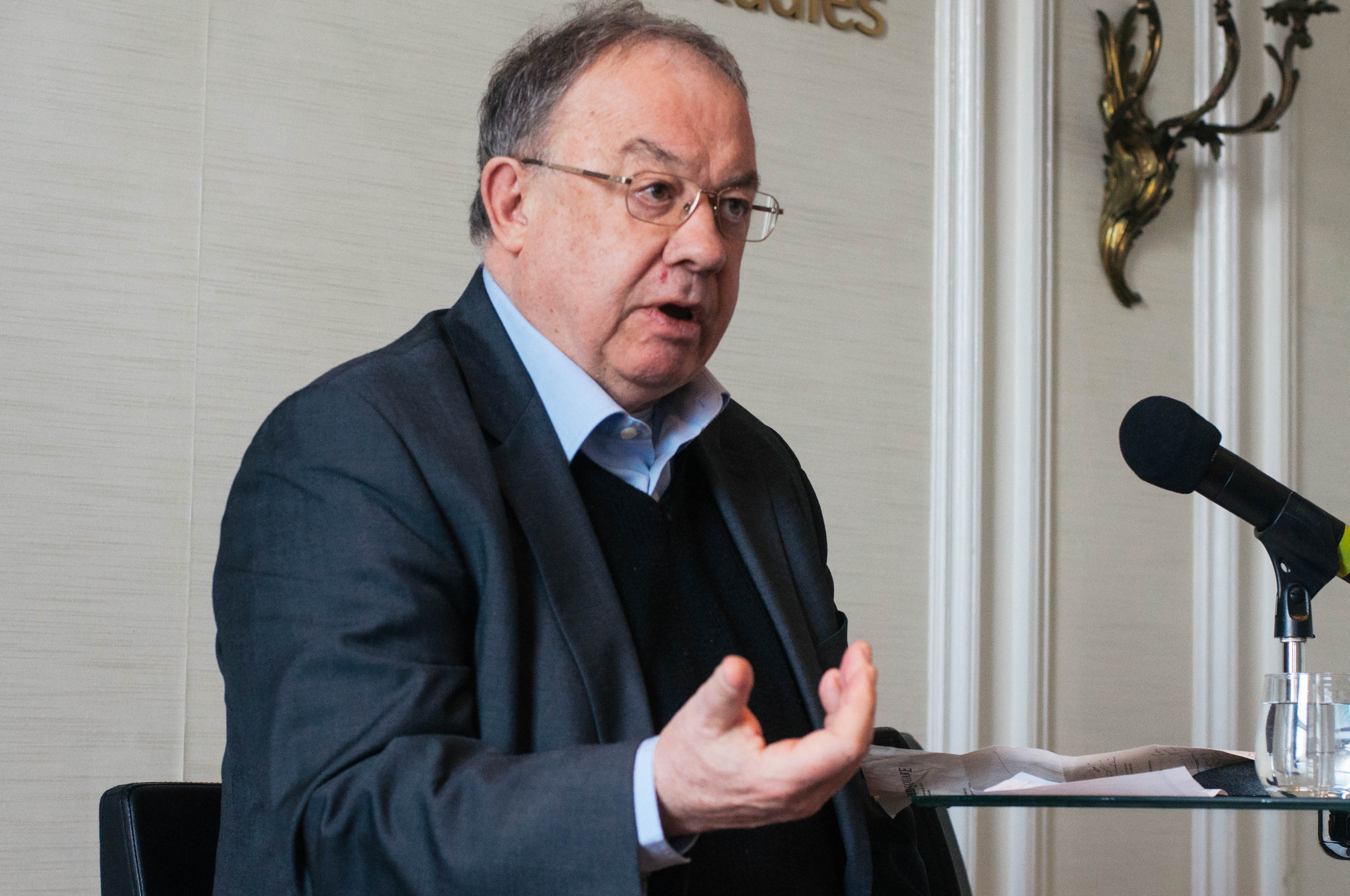 Europe, Religion, Integration: A Lecture by Olivier Roy. Moderated by Jessica Stern. At Boston University Pardee School of Global Studies. Friday, February 3, 2017.